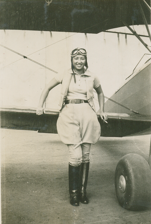 Maggie Gee and Hazel Ying Lee were the first two Chinese Americans in the Women Air Force Service Pilots. Members of the WASP program were the first brave women to fly American military aircraft, forever changing the role of women in aviation. Their dedicated service and record of excellence served as a gateway for future Airmen.